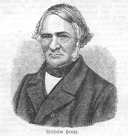 Portrait of the hessian court-gardener Wilhelm Hentze, woodcut from: Karl Theodor Rümpler(Ed.): Illustriertes Gartenbau-Lexikon, Berlin 1882, S. 384.